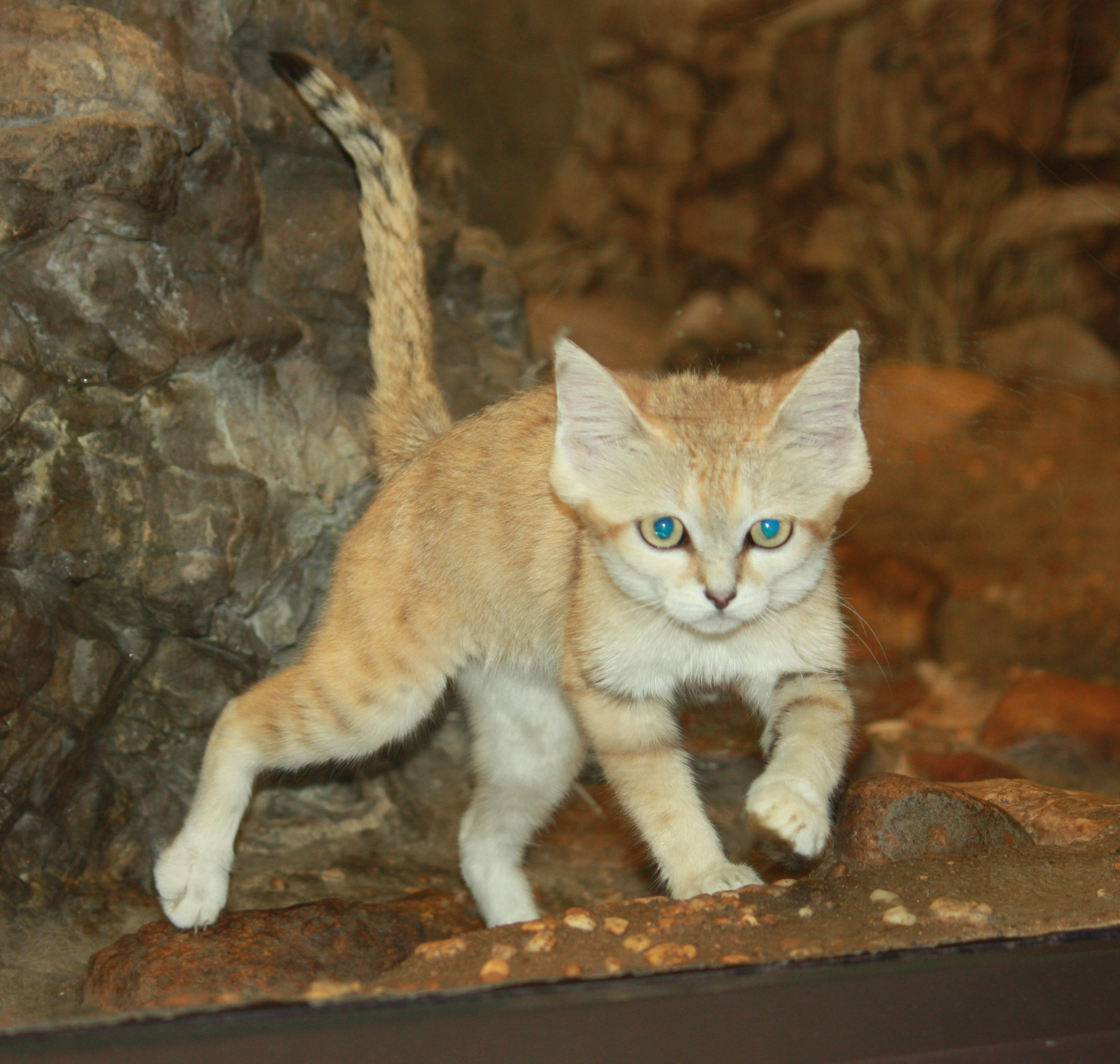 Sand Cat Felis margarita at Cincinnati Zoo